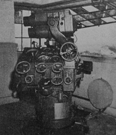 Target survey Type 92 Sokutekiban of Imperial Japanese Navy. This device was used to get speed and course of target ship for low angle guns